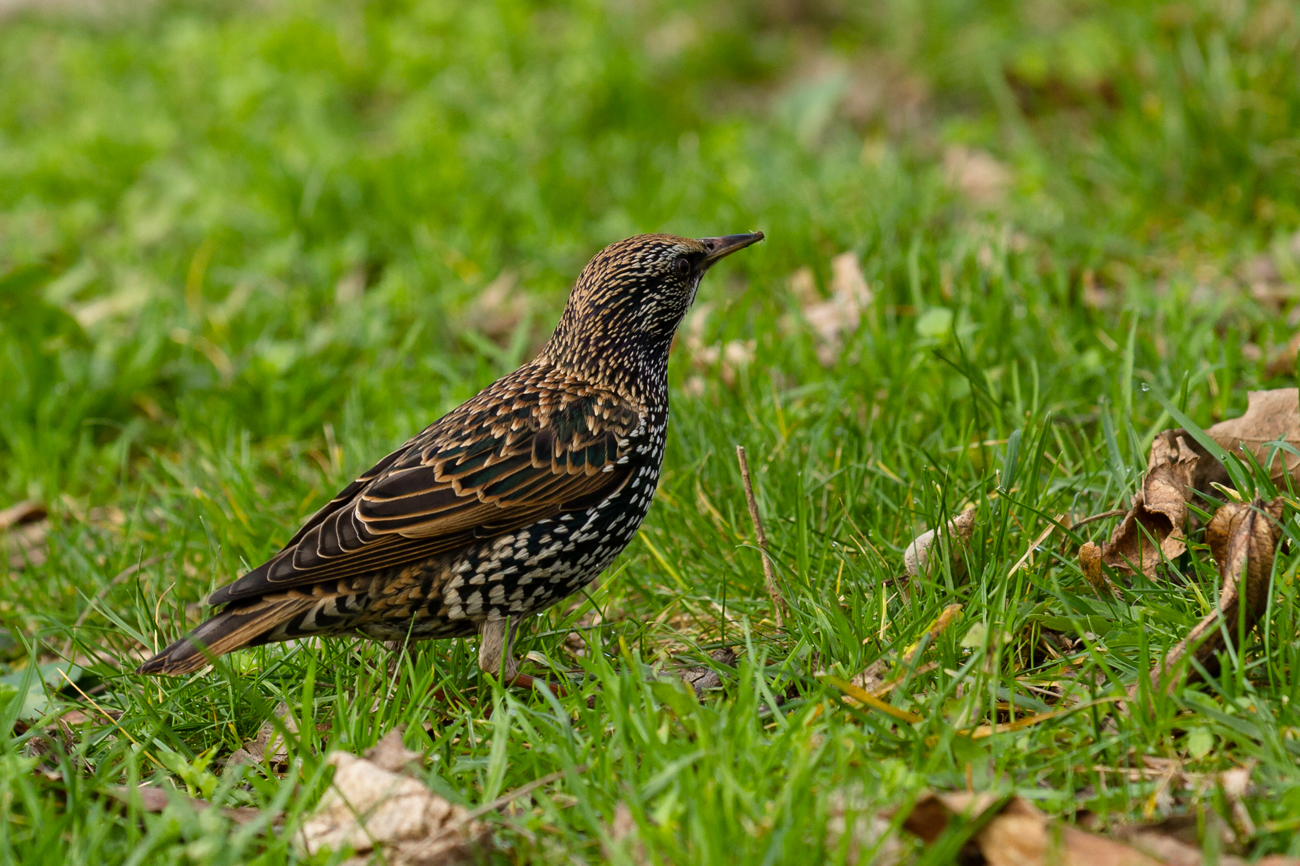 Common starling (Sturnus vulgaris) in Toulouse.